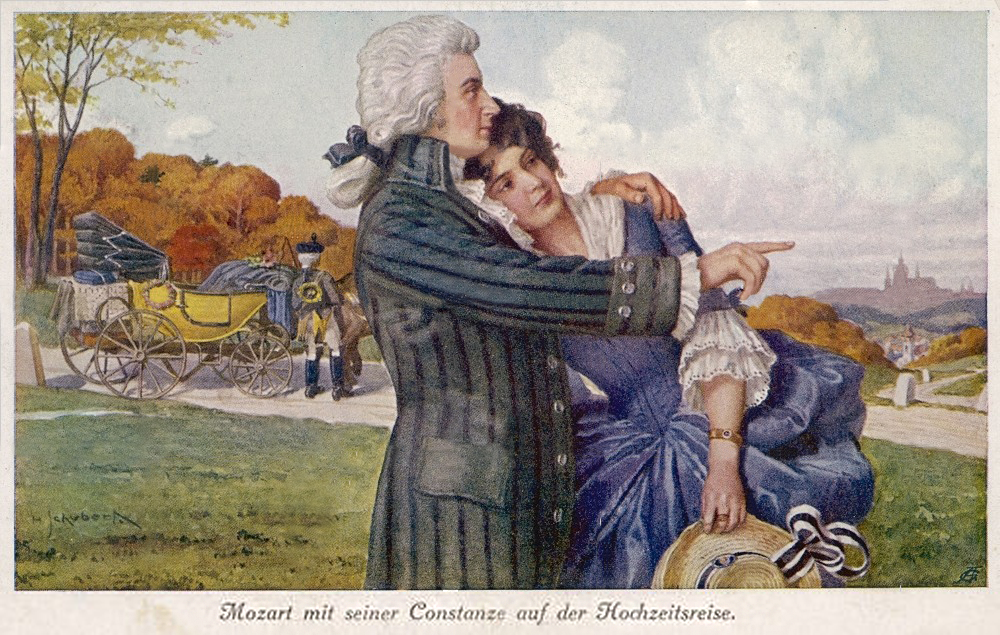 Mozart and Constanze at their honeymoon. XIX century card.